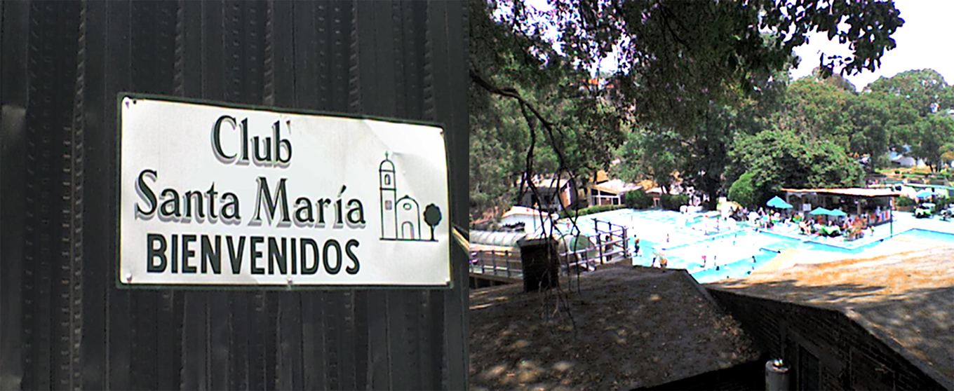 Esta es la fachada y la vista exterior del Club Santa María, located in Santa María Ahuacatitlán, a community in the municipality of Cuernavaca